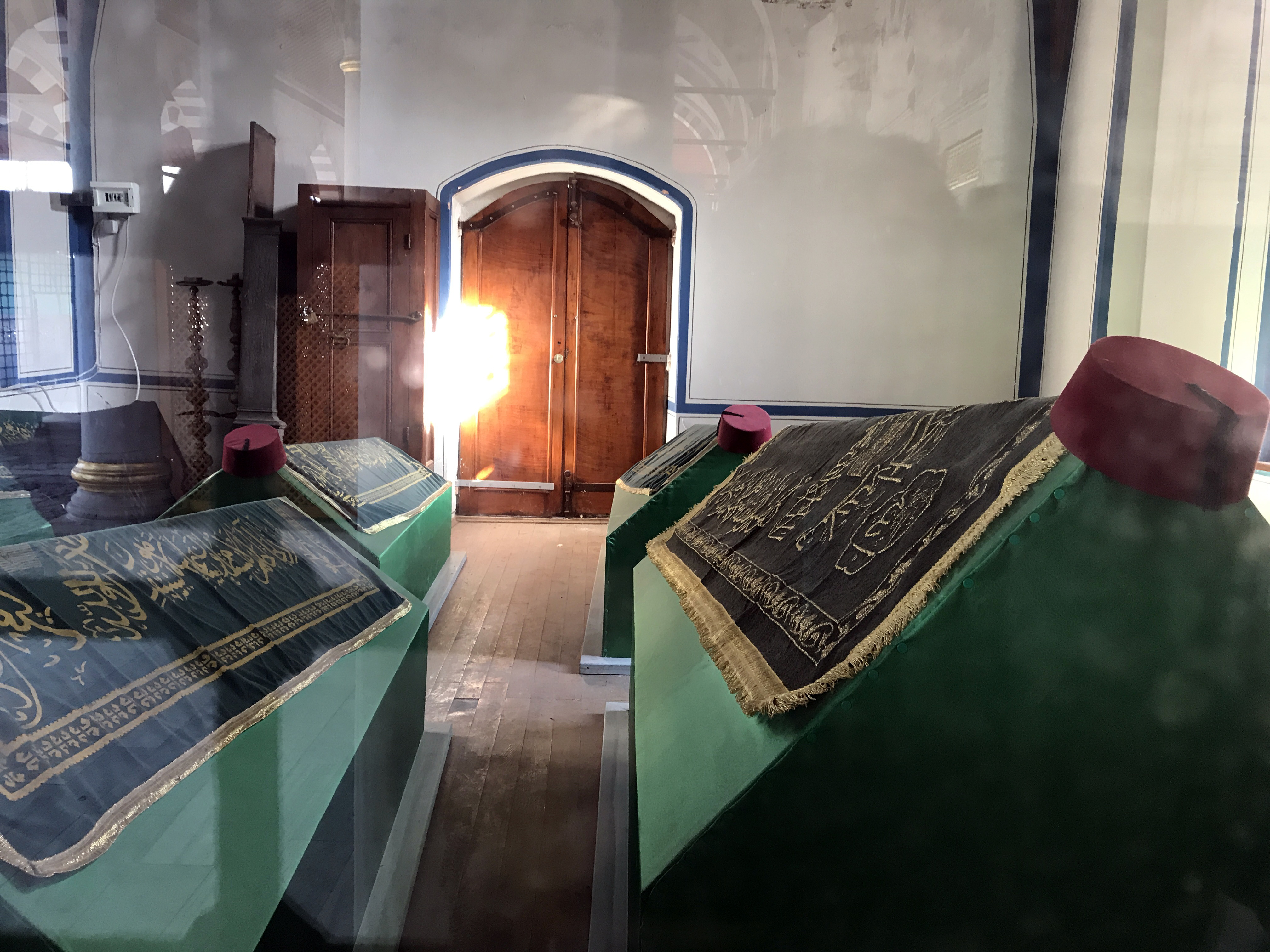 Mihrimah Sultan Mosque (built 1548), is an Ottoman mosque located in the historic center of the Üsküdar municipality in Istanbul, Turkey. It is the first of two mosques built by Mihrimah Sultan, daughter of Sultan Suleiman the Magnificent and wife of Grand Vizier Rüstem Pasha. It was designed by Mimar Sinan and built between 1546 and 1548.